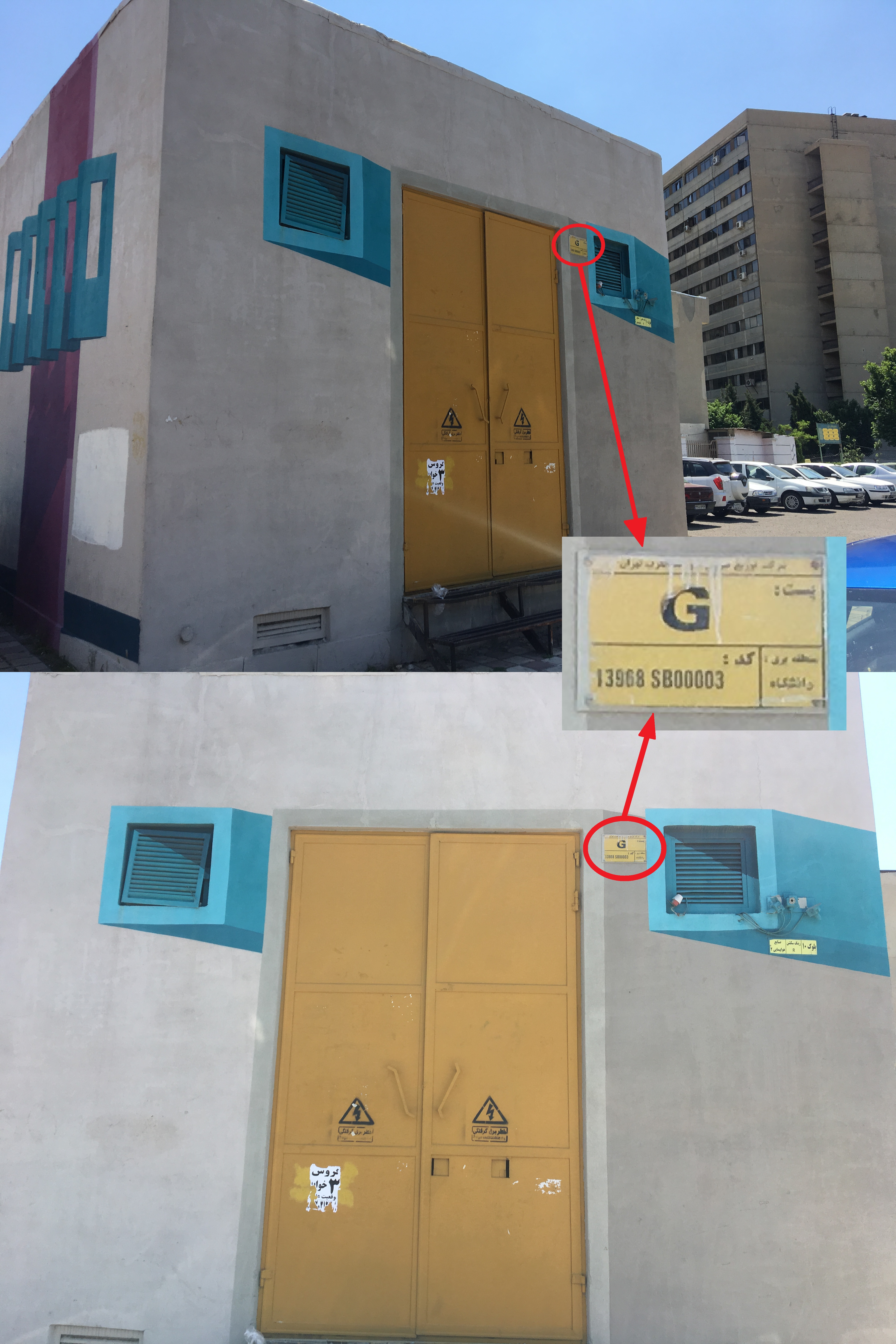 An example of using Power Distribution Equipment Identification (PDEID) label for a substation in Tehran, Shahrak-e-Ekbatan; Iran